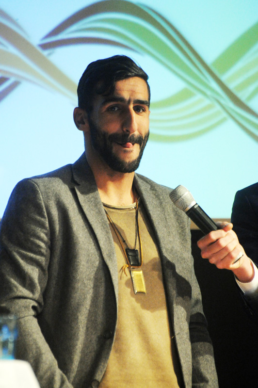 Mohammed Ali Khan